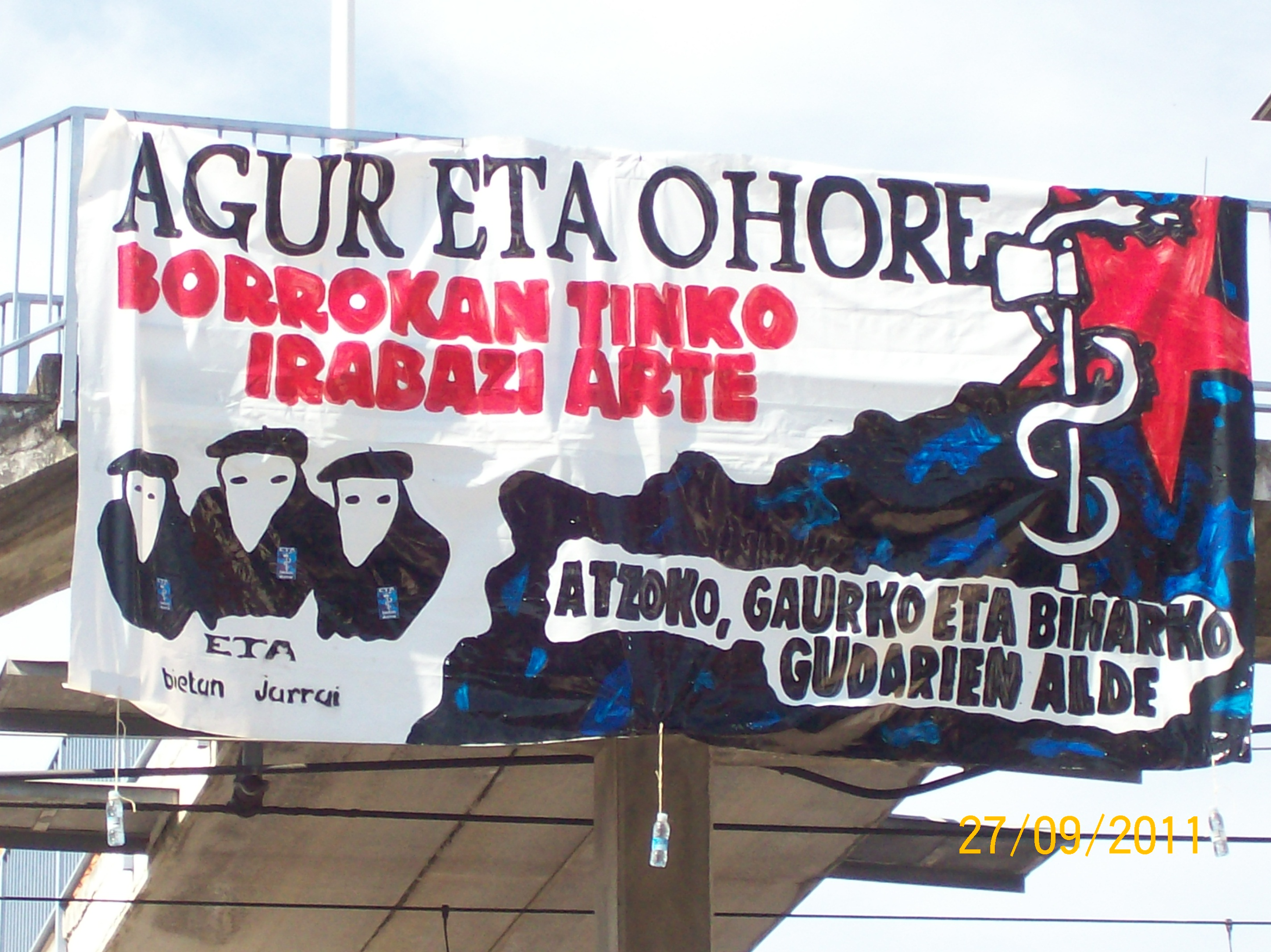 Banner supporting basque activists